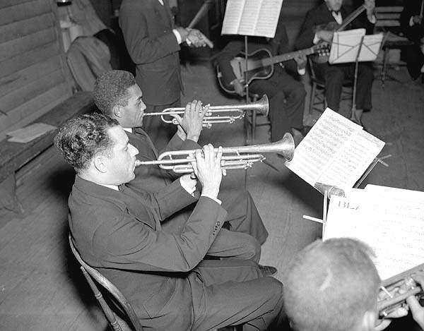 Trumpet players with WPA band, New Orleans, 1937. Original caption: "Negro Military Band in rehearsal. Interior." Closer trumpeter looks like Lionel Ferbos.